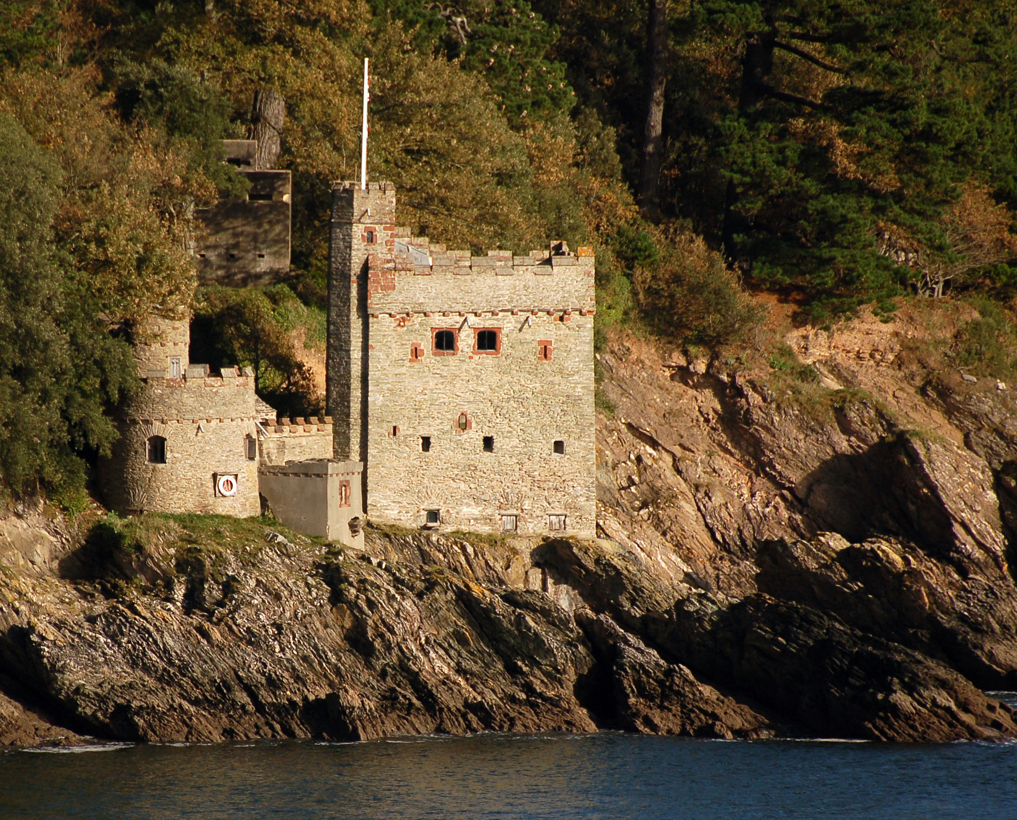 Kingswear Castle, closeup